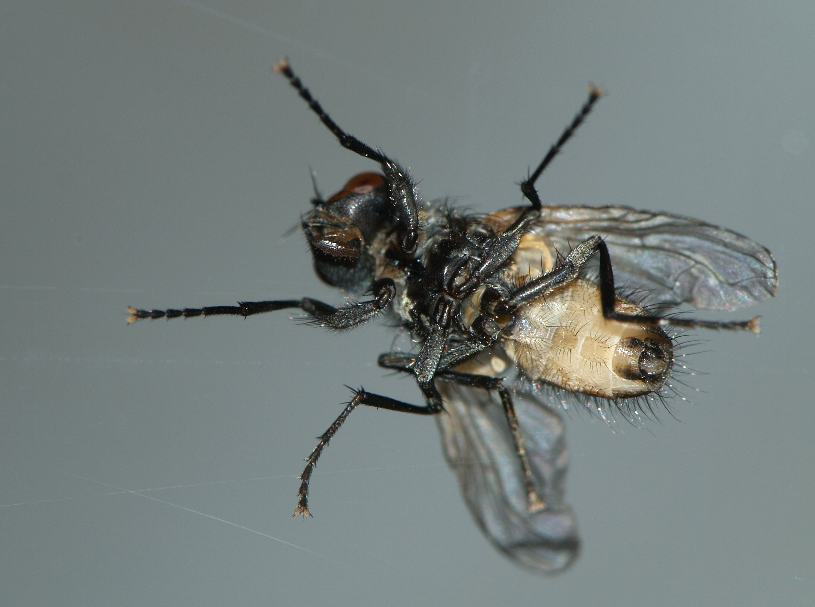 Musca domestica from below. From Cologne Zoo, Germany.